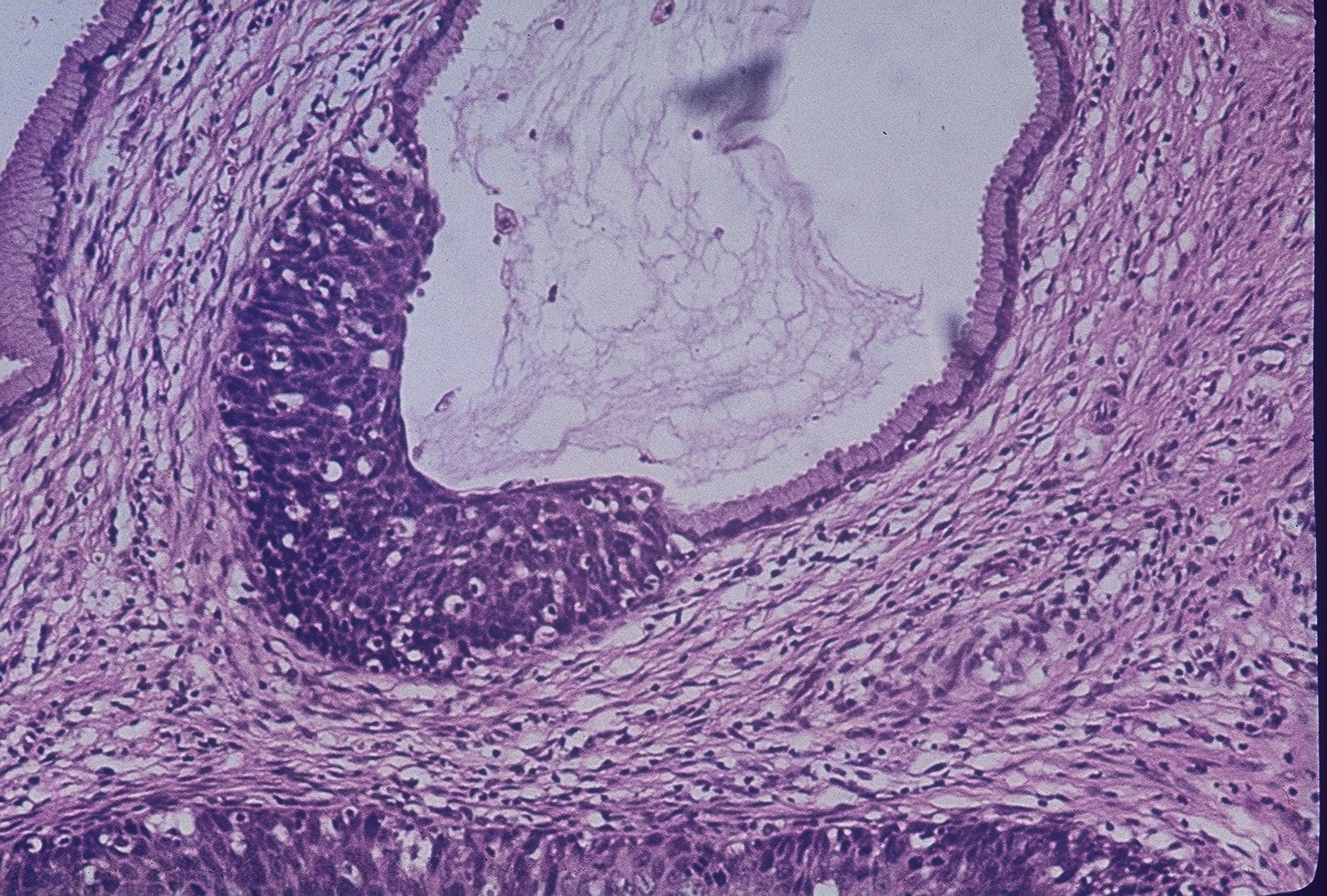 Cervical gland showing an area of high grade epithelial dysplasia (CIN3). Asymptomatic patient, biopsy taken after a routine PAP smear was found to be abnormal.